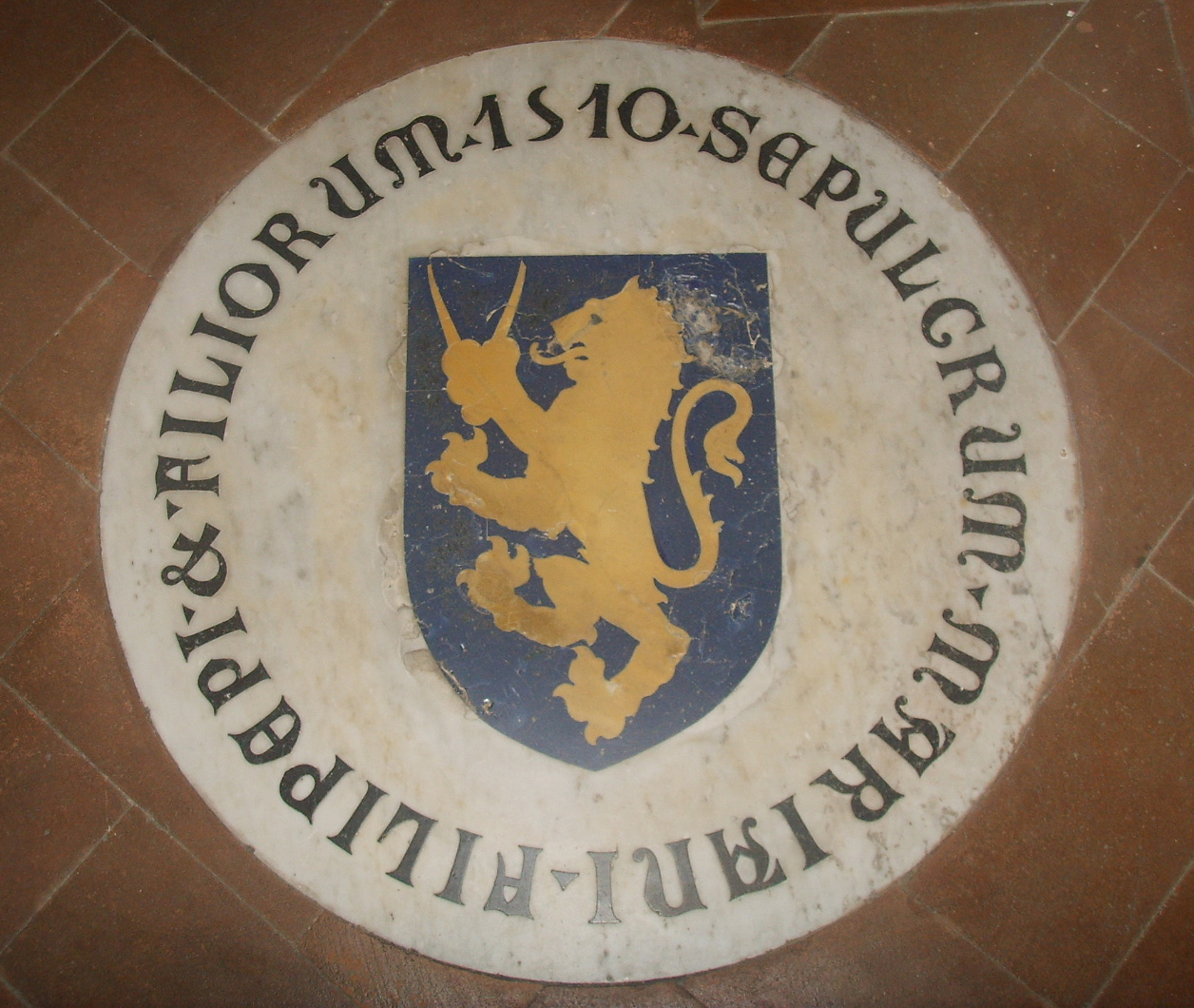 Plaque, dated 1510, for the family tomb of Mariano Filipepi and his sons, including the painter Alessandro di Mariano Filipepi, best known as Sandro Botticelli. In Ognissanti church in Florence, Italy.